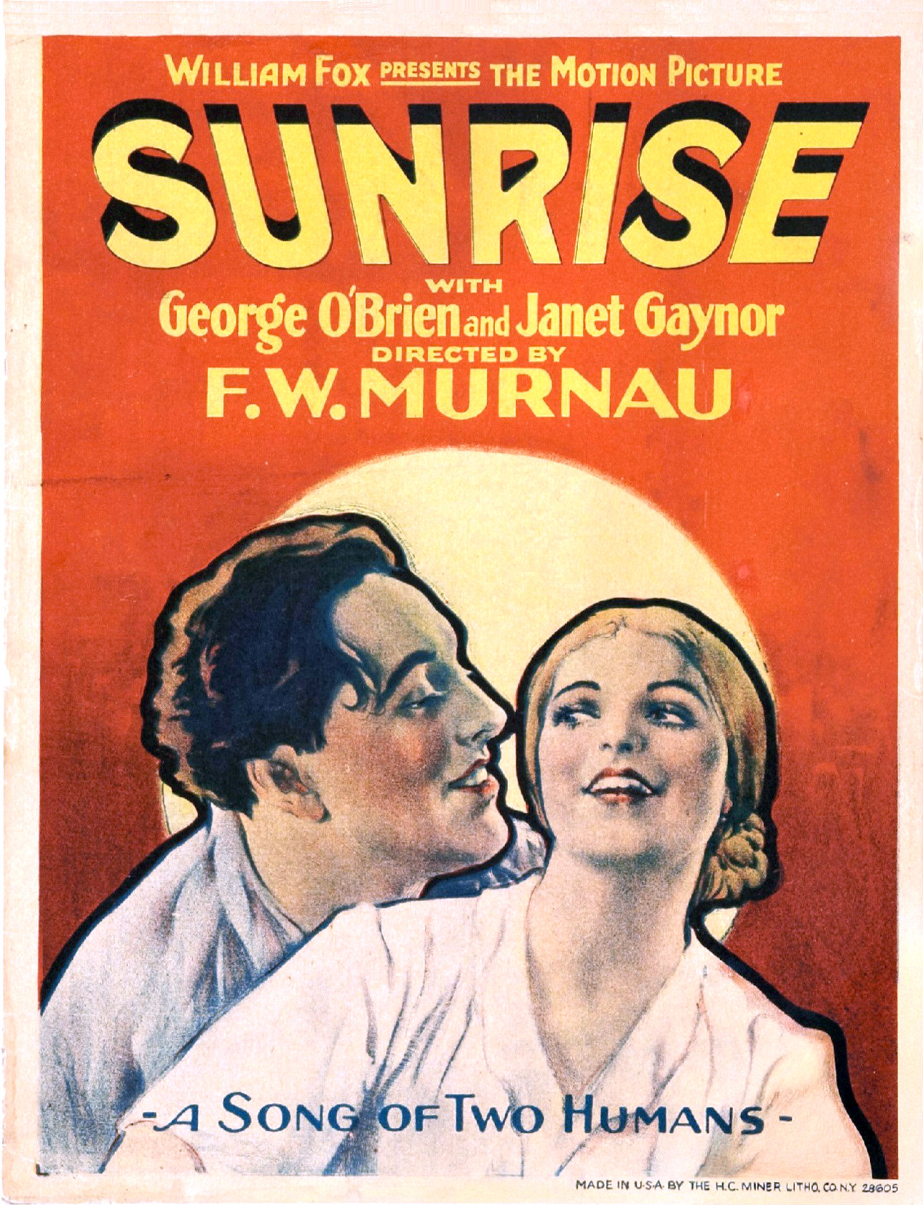 Window poster for the 1927 film Sunrise: A Song of Two Humans.